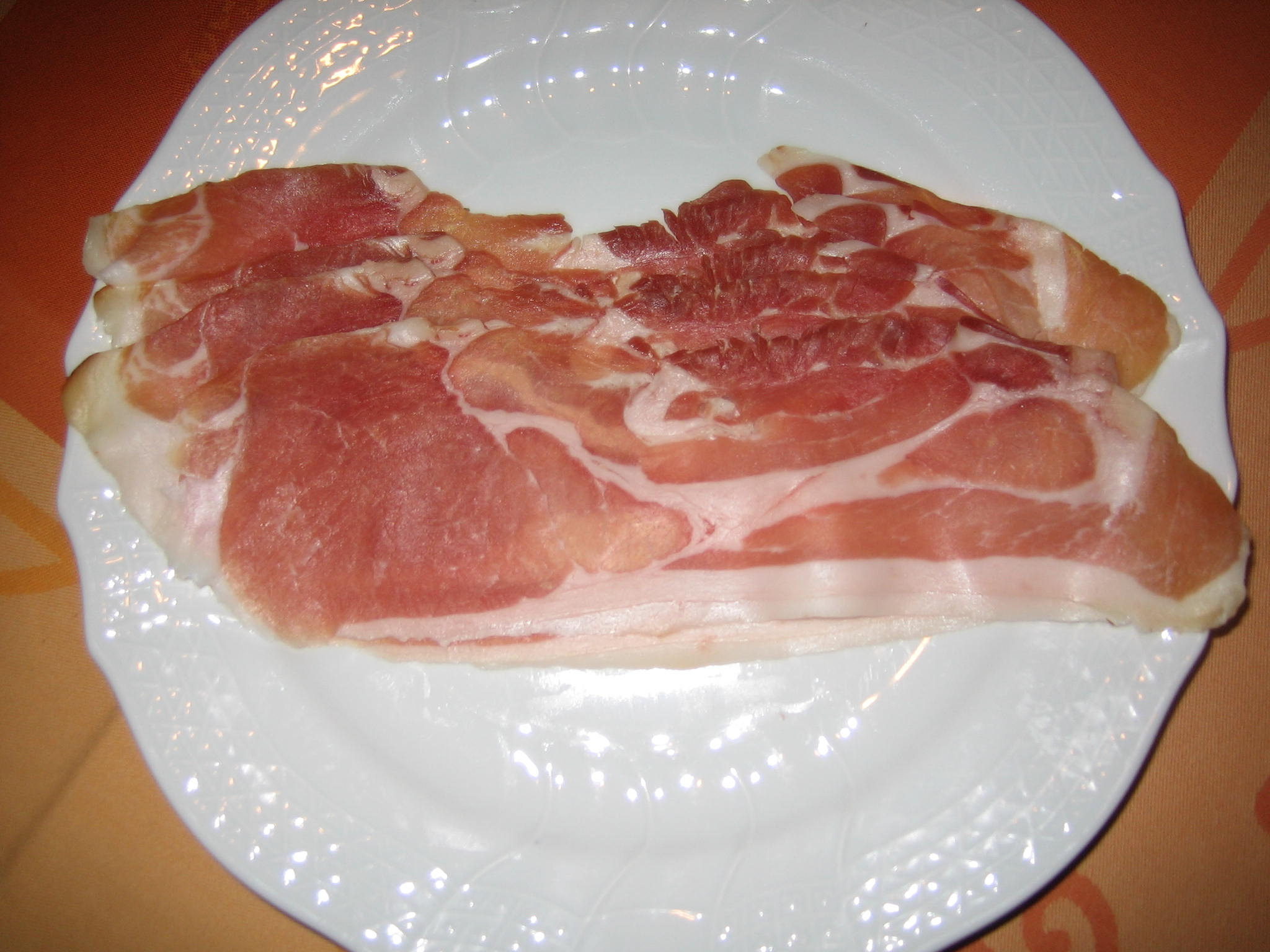 Mainzer Schinken was a denomination for a ham cured in special fashion